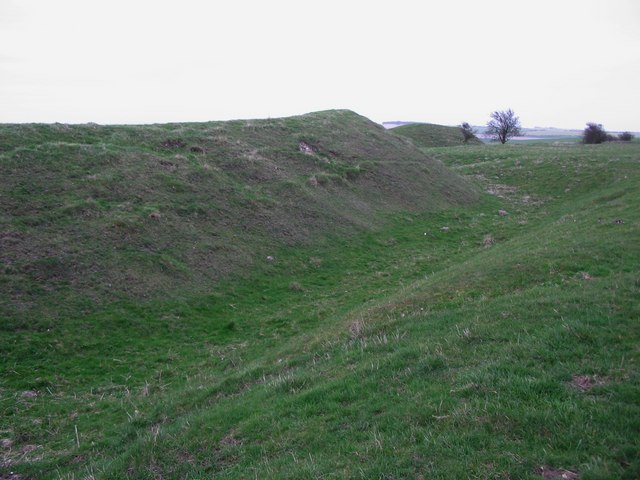 Bratton Camp earthworks A view looking to the northeast to the earthworks of Bratton Camp, an Iron Age hillfort on White Horse Hill.